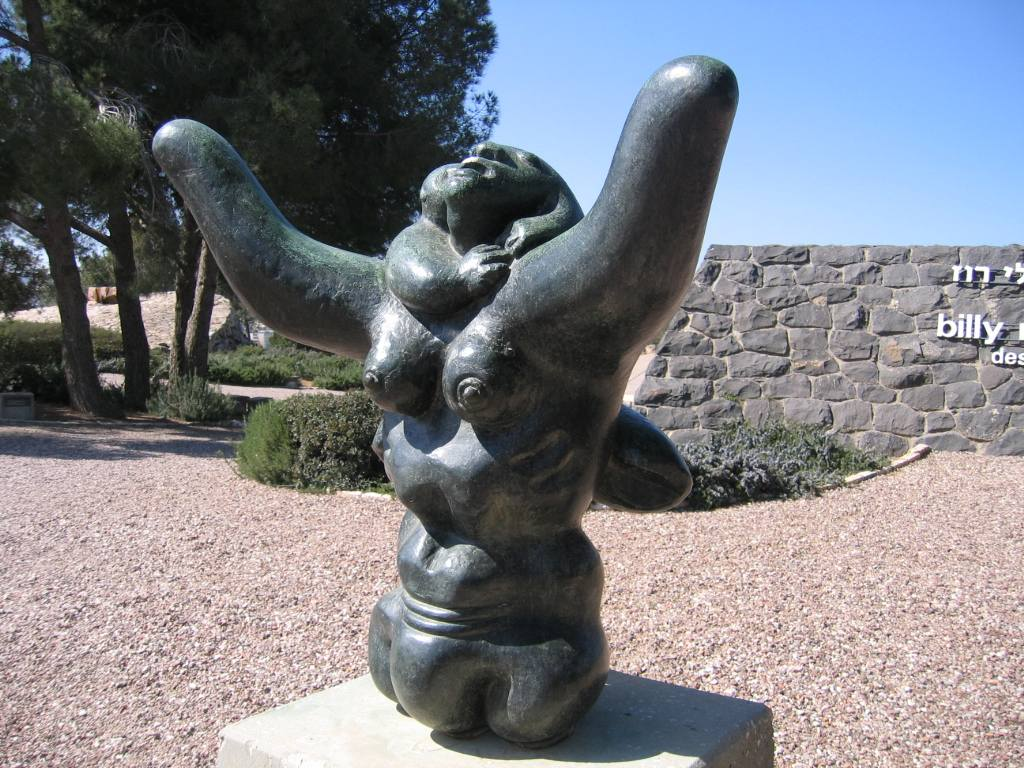 Jacques Lipchitz "mother and child 2" (1941-45). photo by yair talmor, 16.3.2006 at the Israel museum, Jerusalem.